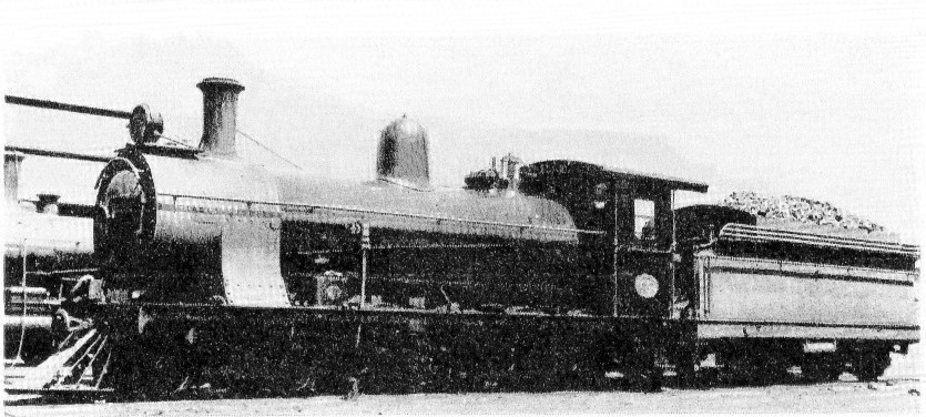 Ex New Cape Central Railways Class 7 no. 4 (4-8-0) South African Railways Class 7E 1347 (4-8-0) Builder's Number: Neilson, Reid 5704 Location: Salt River, Cape Town